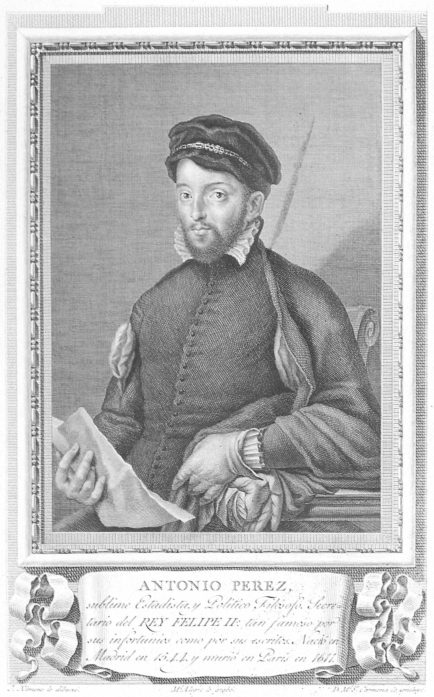 Grabado que representa Antonio Pérez, secretario del rey Felipe II.1 estampa : buril ; huella de la plancha 367 x 240 mmEngraving which represents Antonio Pérez, secretary of king Philip II of Spain.